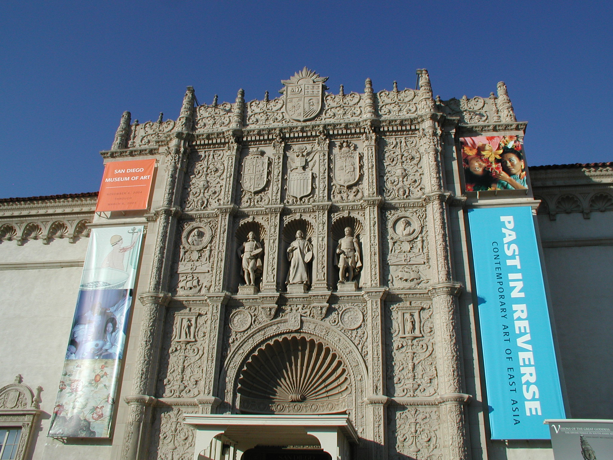 San Diego Museum of Art